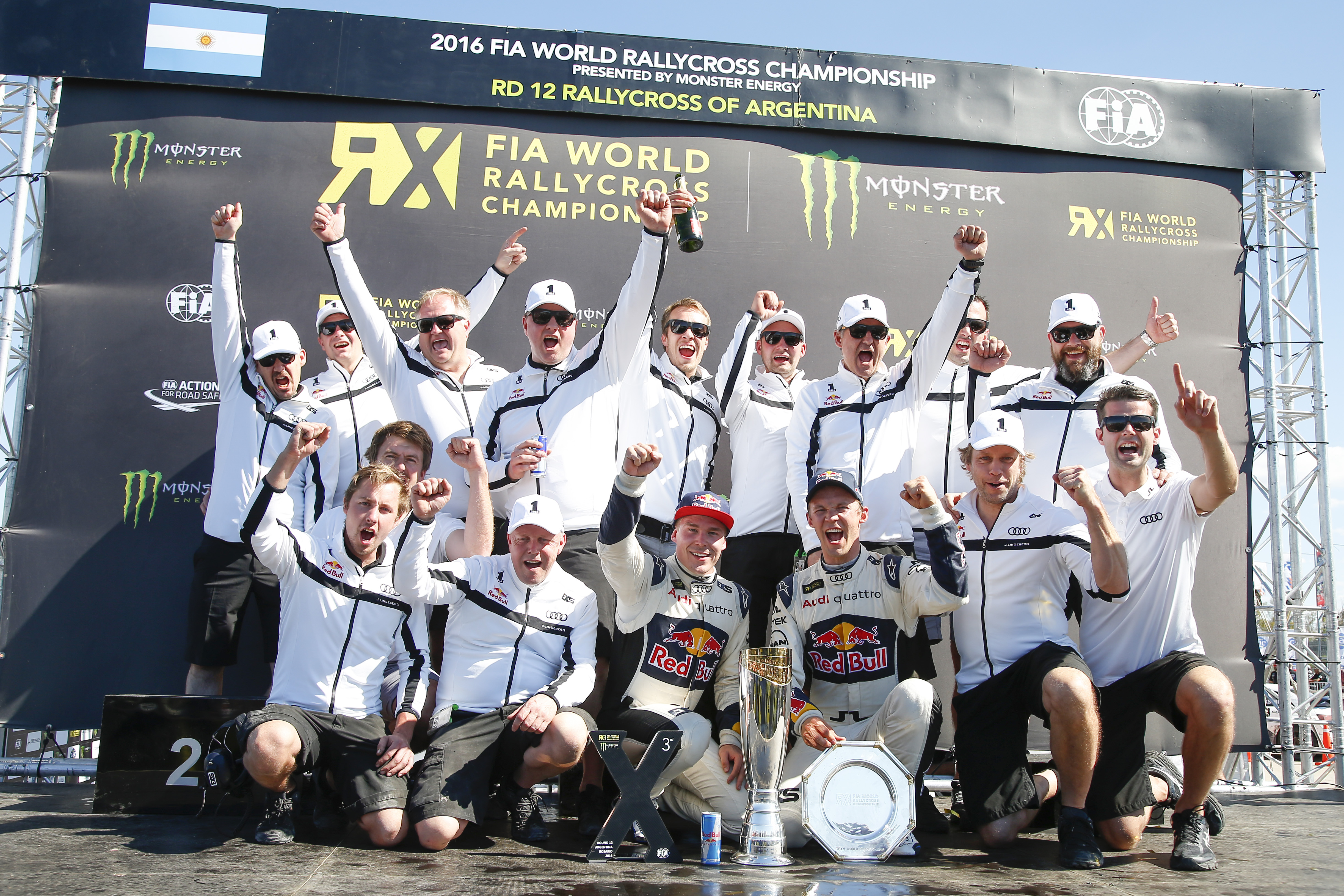 2016 FIA World RX Rallycross Championship / Round 12 / Rosario, Argentina / November 25 - 28, 2016 // Worldwide Copyright:Tony Welam/EKS/McKlein